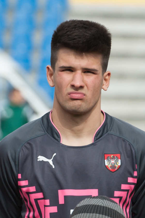 European Under-19 Championships 2015 Elite Round, Austria vs. Croatia, 28/03/2015 Wiener Neustadt, Lower Austria